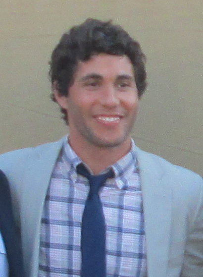 The cast of We Are Men 2013